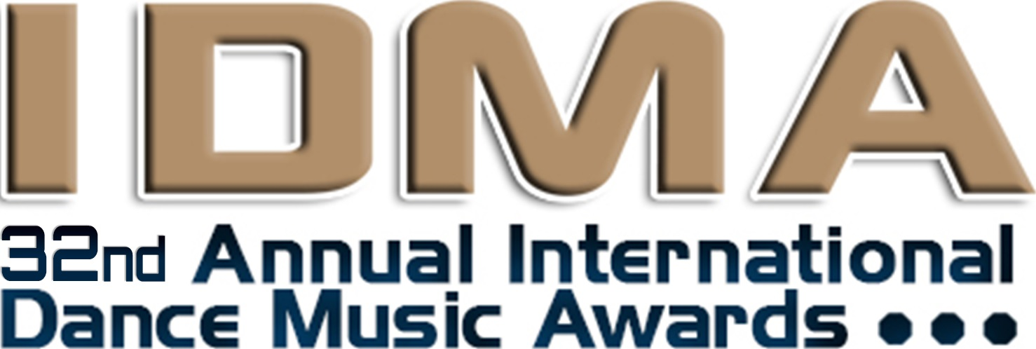 Logo of the IDMA Awards presented by the